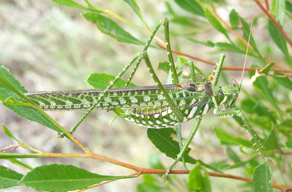 Photo taken by uploader (David Marshall) and not used elsewhere.